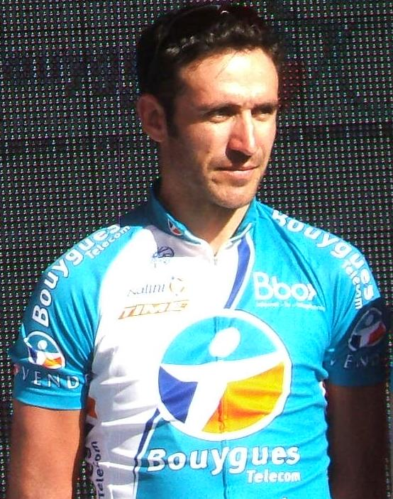 Named cyclist at the en:2009 Tour Down Under team presentation